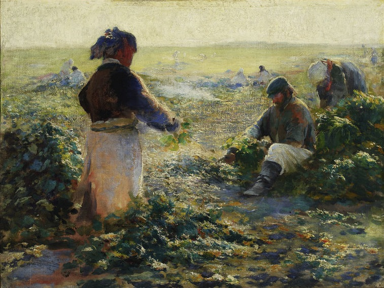 Leon Wyczółkowski, Beet Harvest I